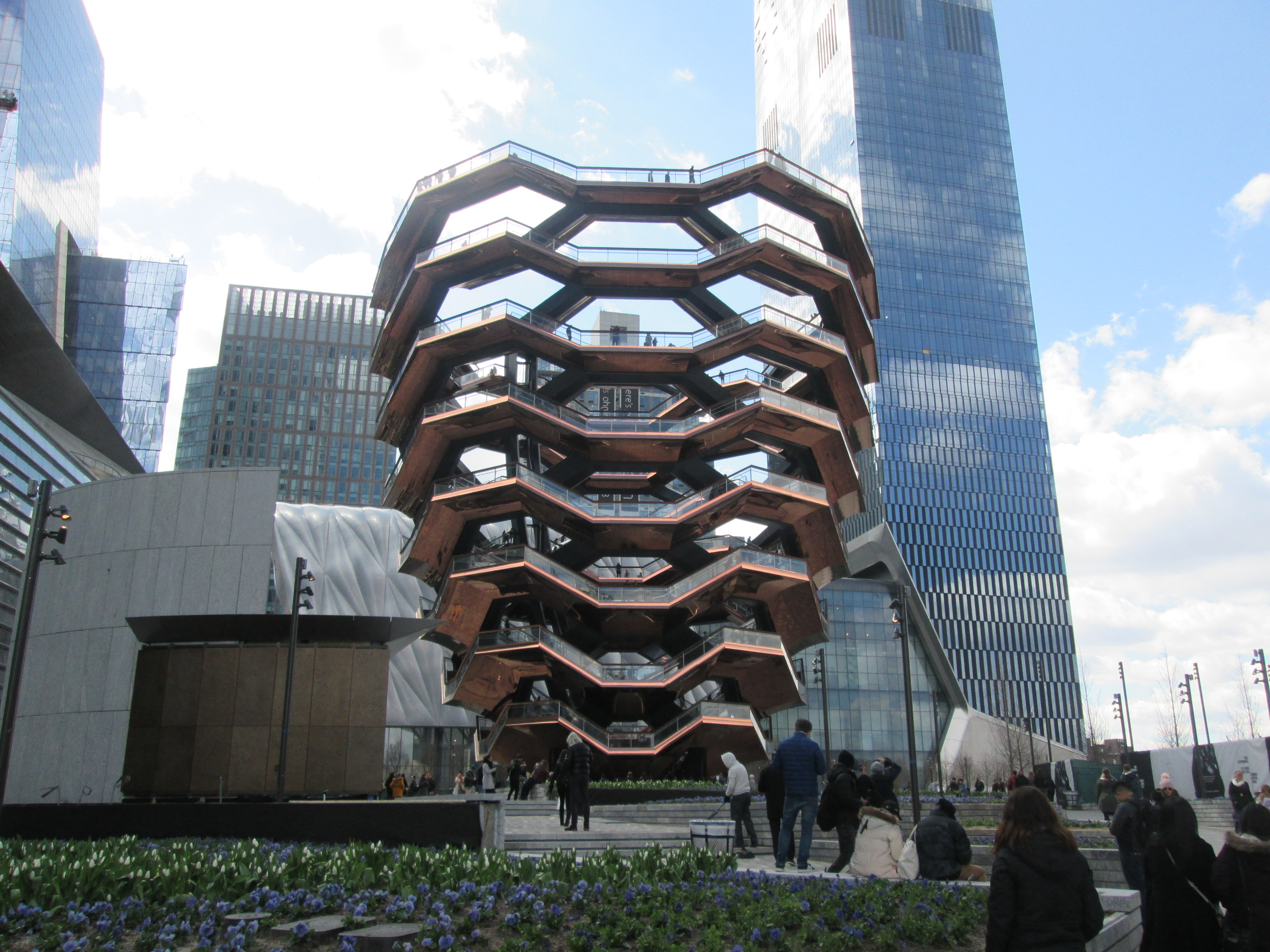 The Hudson Yards development in New York City in March 2019; looking south from public plaza at Vessel. 15 HY is at right